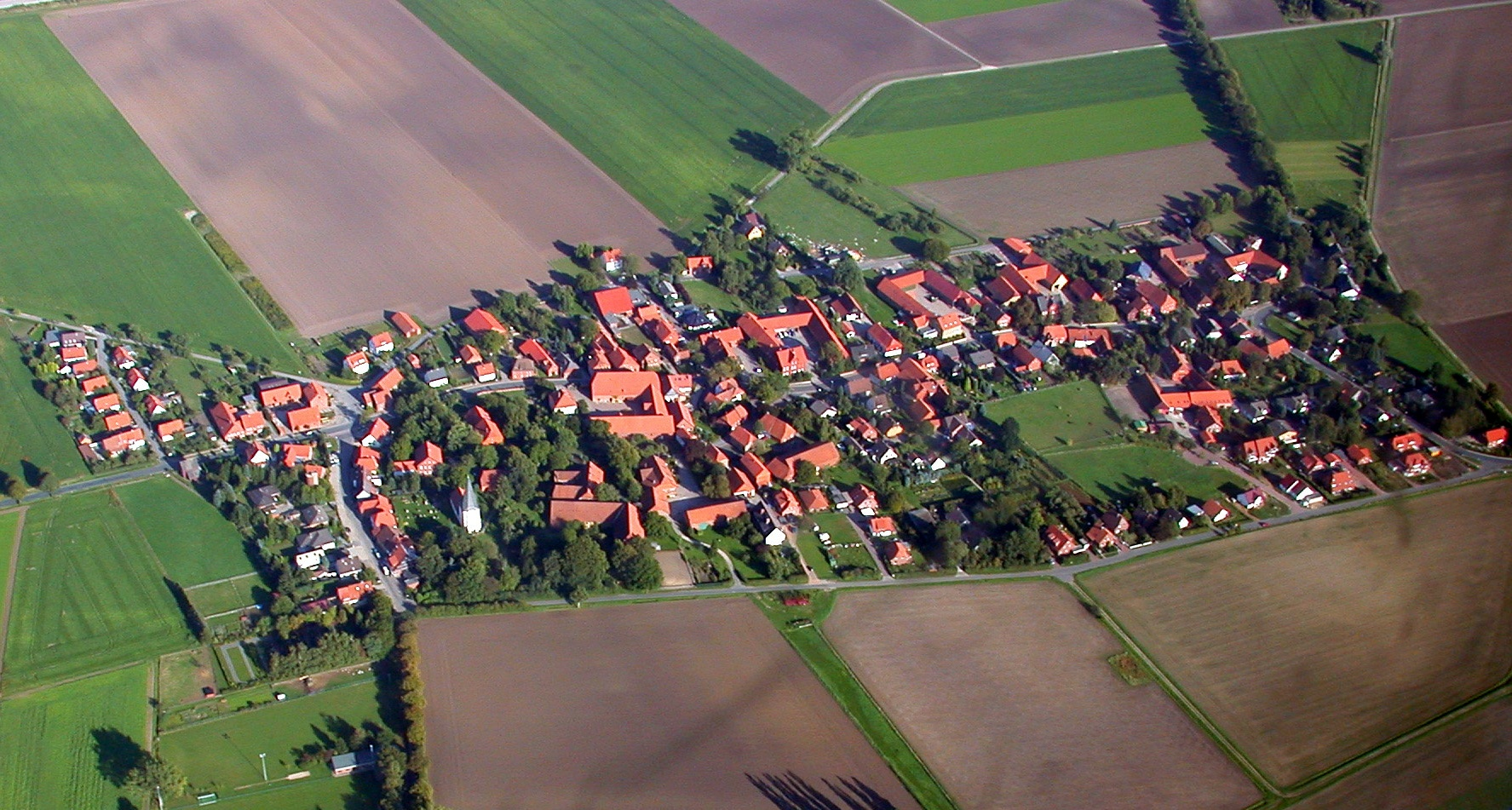 Aerial view of Hotteln